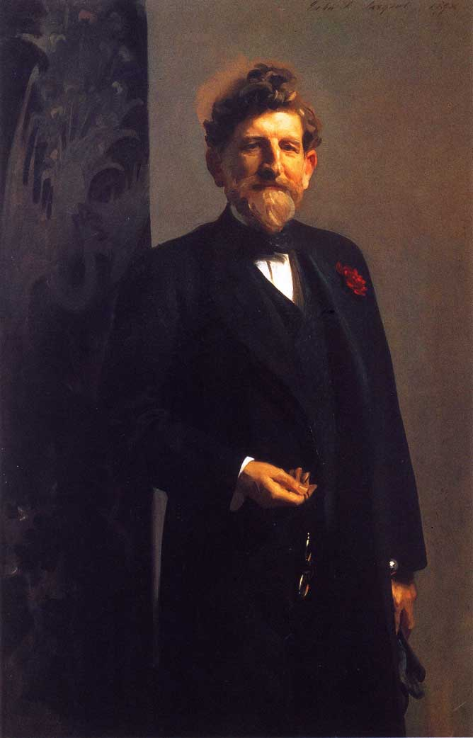 Senator Calvin Brice John Singer Sargent -- American painter 1898 July 18th-28th - Painted London Allen County Historical Society, Lima, Ohio Oil on canvas 147.6 x 93.3 cm (58 1/8 x 36 3/4 in.) Inscribed: (Upper right:) John S. Sargent 1898 (On reverse, in another hand:) Painted London July 18th-28th 1898 Accession Number: 878.1 Jpg: .the-athenaeum